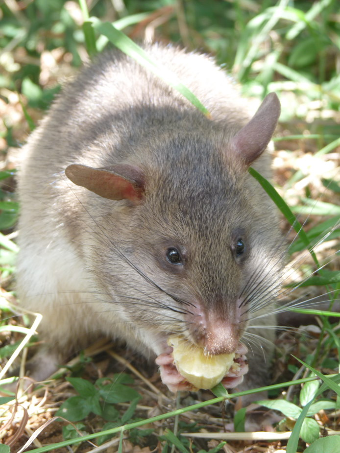 HeroRAT eating a banana